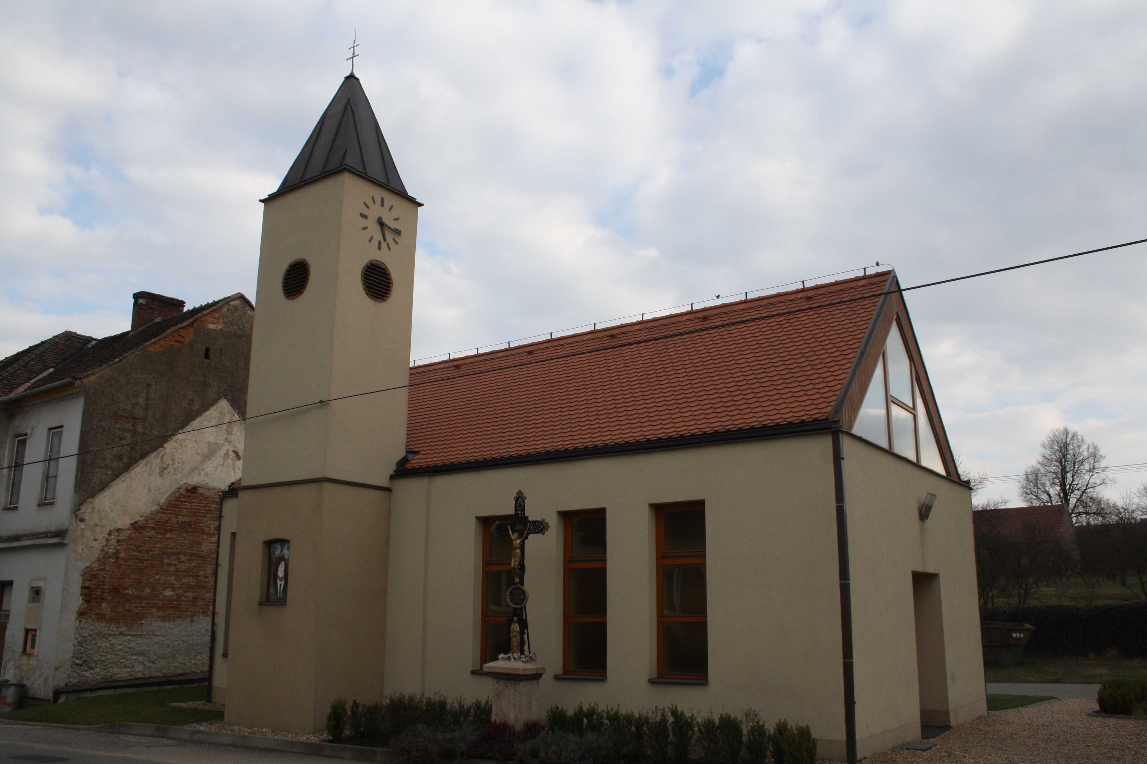 Chapel of Saint Wenceslaw in Studenec, Třebíč District.